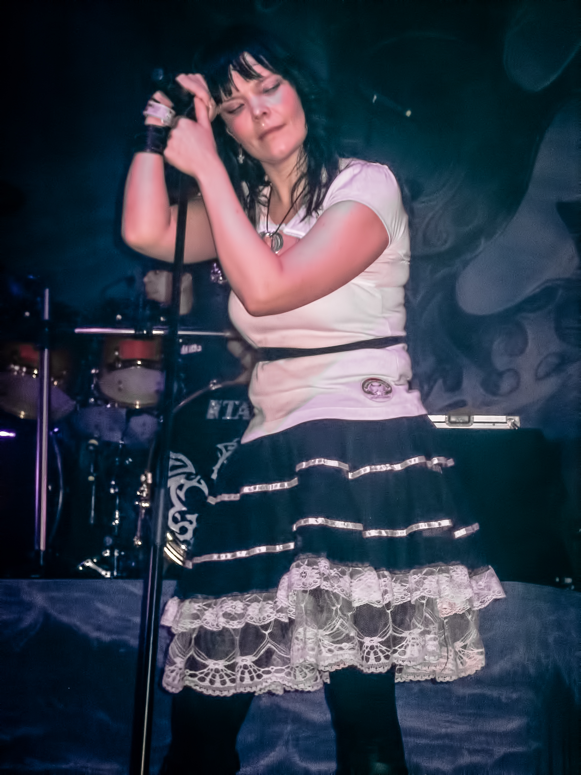 A night at the Astoria. Support band Pain.